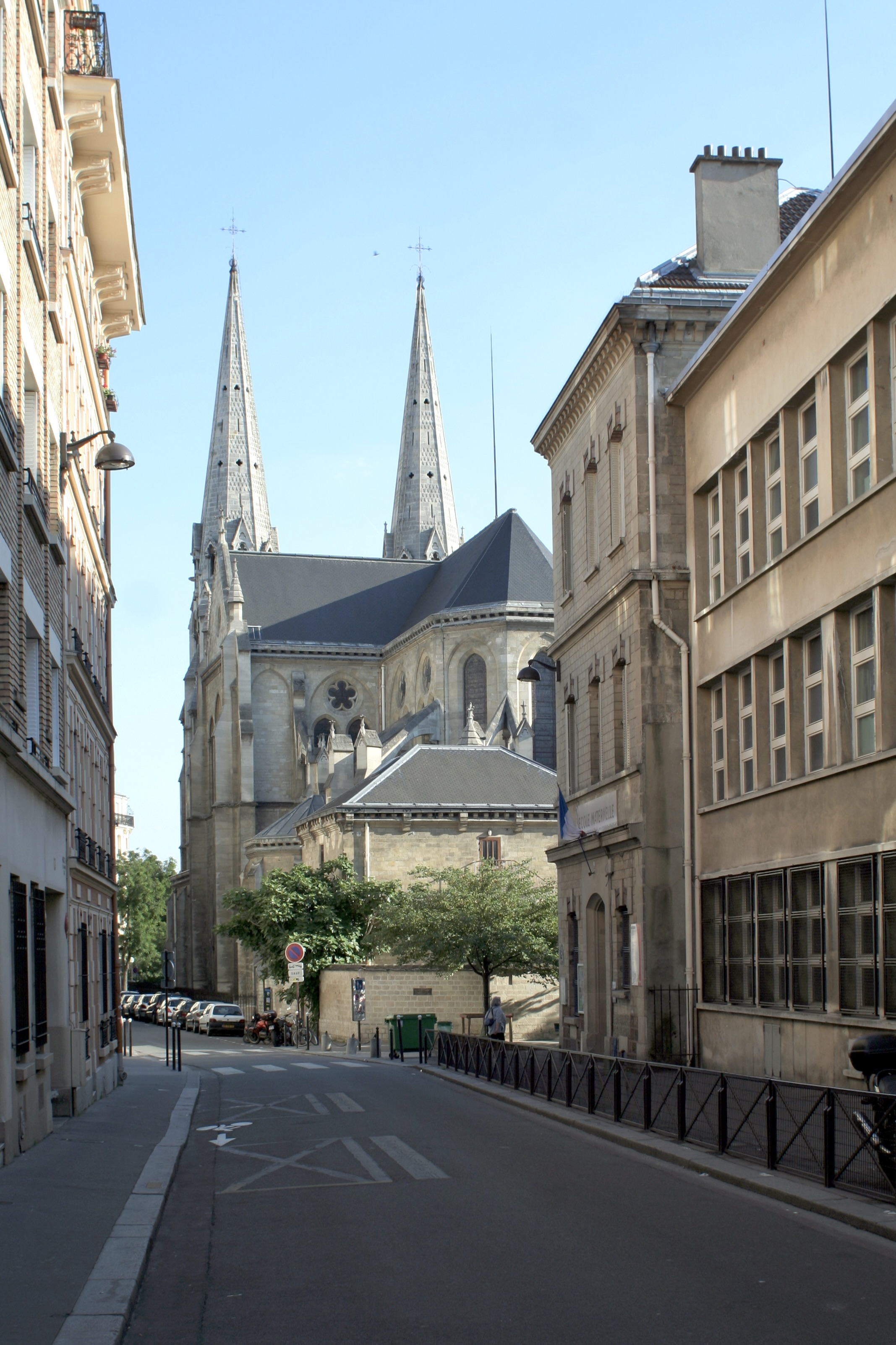 Rue de Palestine (Paris, France). Below: Saint-Jean-Baptiste de Belleville Church.